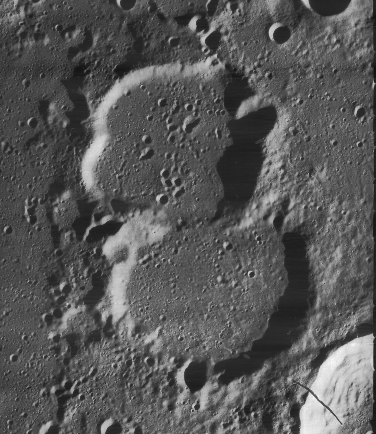 Main (above center) and Challis (below center), near the north pole of the moon. Streak at bottom is blemish on original.